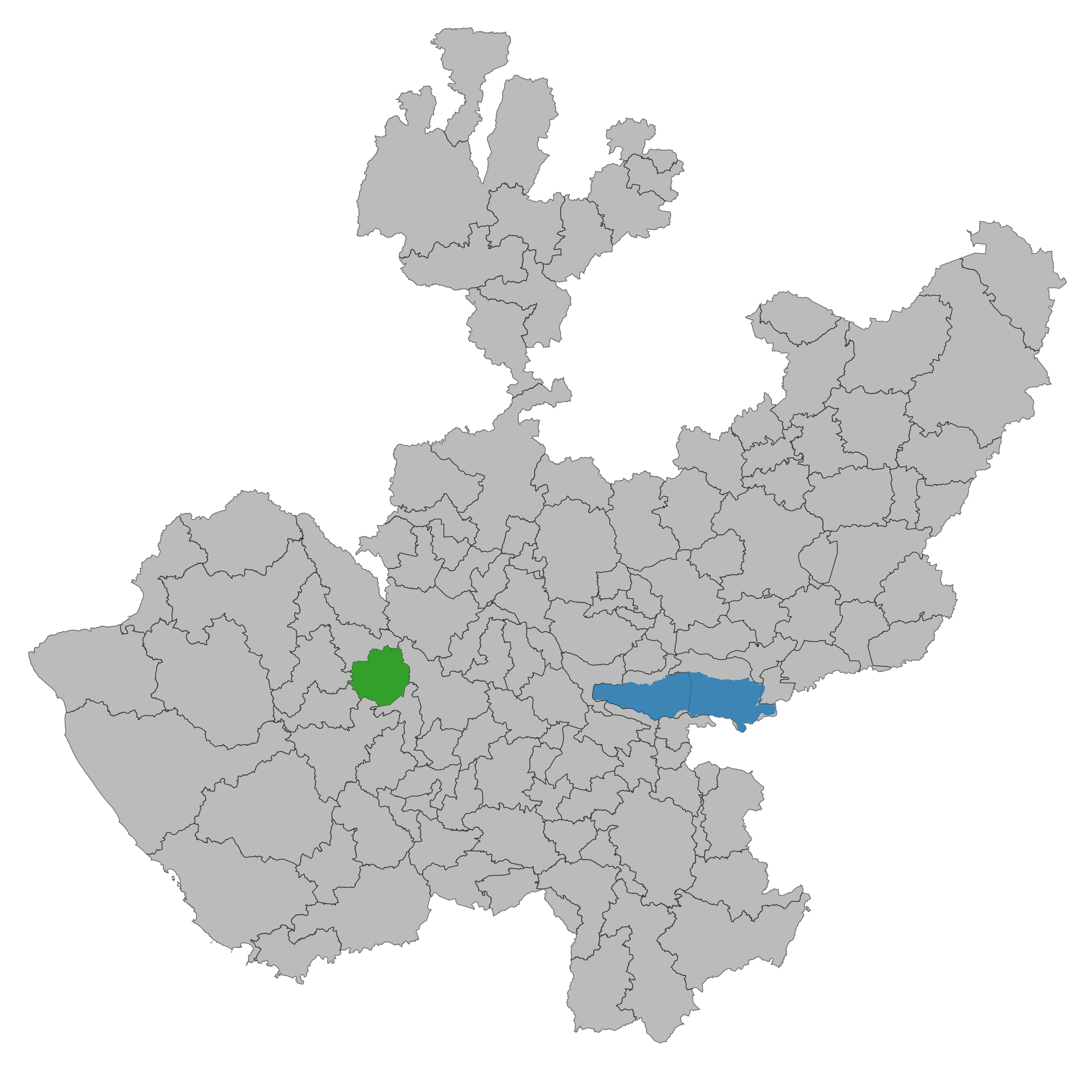 Municipality of Jalisco. Prepared with the software QGIS version 2.8.2 Wien & with information of SCINCE 2010 version 05/2013